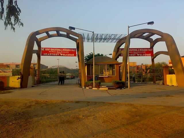 Main Gate RIEIT,Railmajra